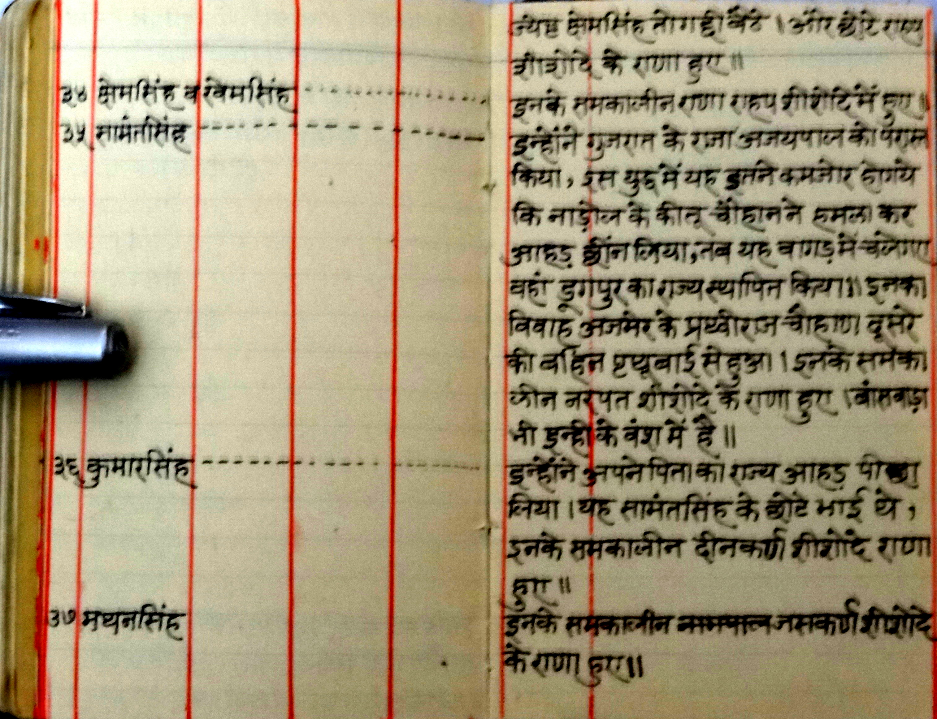 Extract of diary of Mathuranath Purohit. He was Master of Ceremonies of Mewar Durbar 1939.